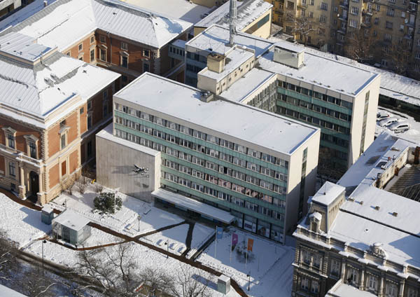 The headquarter of the Radio Budapest in Hungary, Budapest, District VIII, Palotanegyed. Aerial photography.